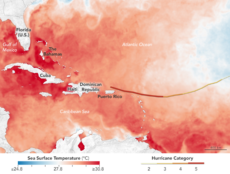 The map above shows sea surface temperatures in the Atlantic Ocean, Caribbean Sea and Gulf of Mexico on Sept. 5, 2017. The mid-point of the color scale is 27.8°C, a threshold that scientists generally believe to be warm enough to fuel a hurricane. The yellow-to-red line on the map represents Irma’s track from Sept. 3–6.